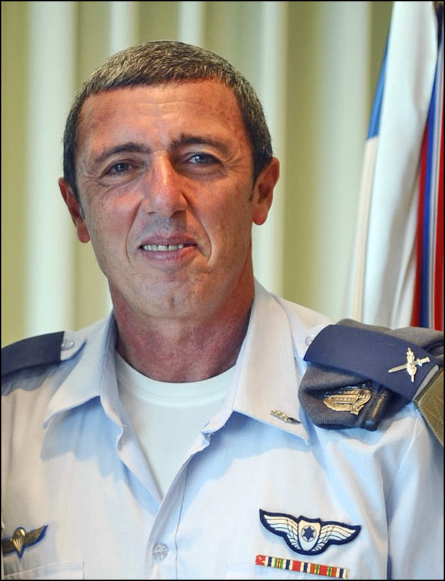 October 10, 2011 Today, Chief Military Rabbi Brig. Gen. Rafi Peretz gave the IDF Chief of Staff Lt. Gen. Benny Gantz the Four Species in anticipation of the upcoming holiday of Sukkot (Tabernacles). Photo by Sgt. Ori Shifrin, IDF Spokesperson Unit.